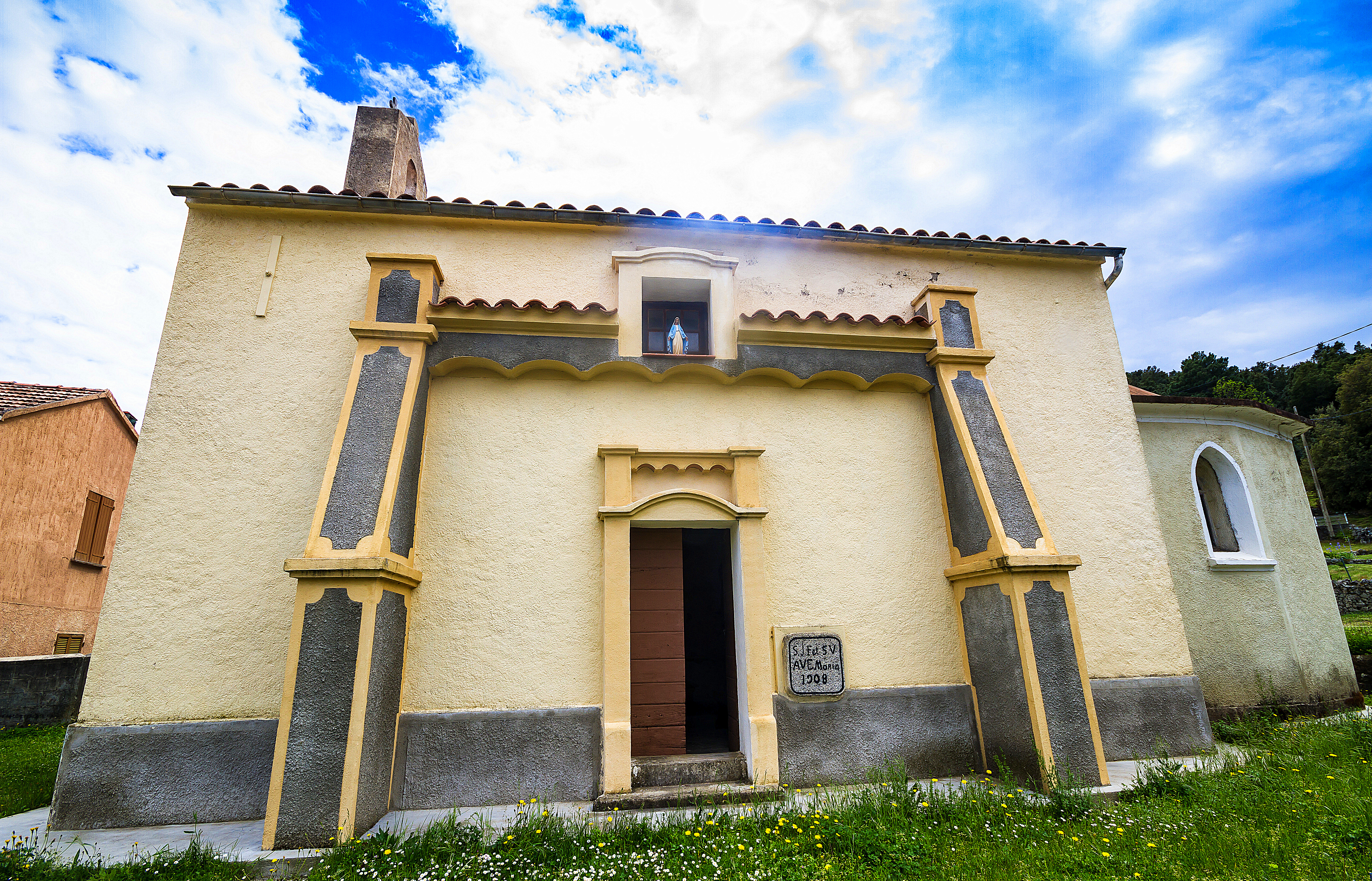 Chapelle d'Acciani